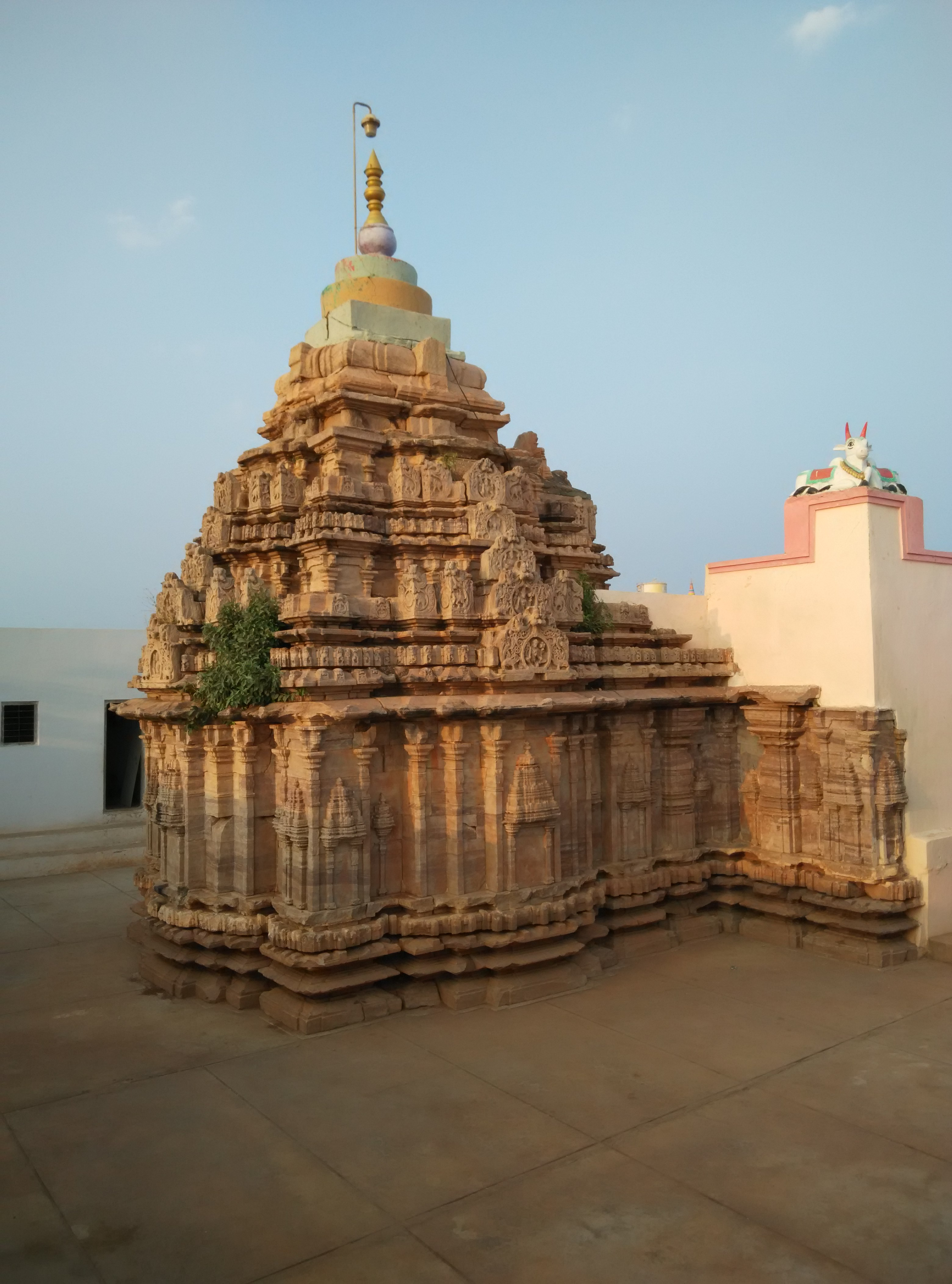 Someshwara-temple-backside-view - sculpture of garbha gudi.